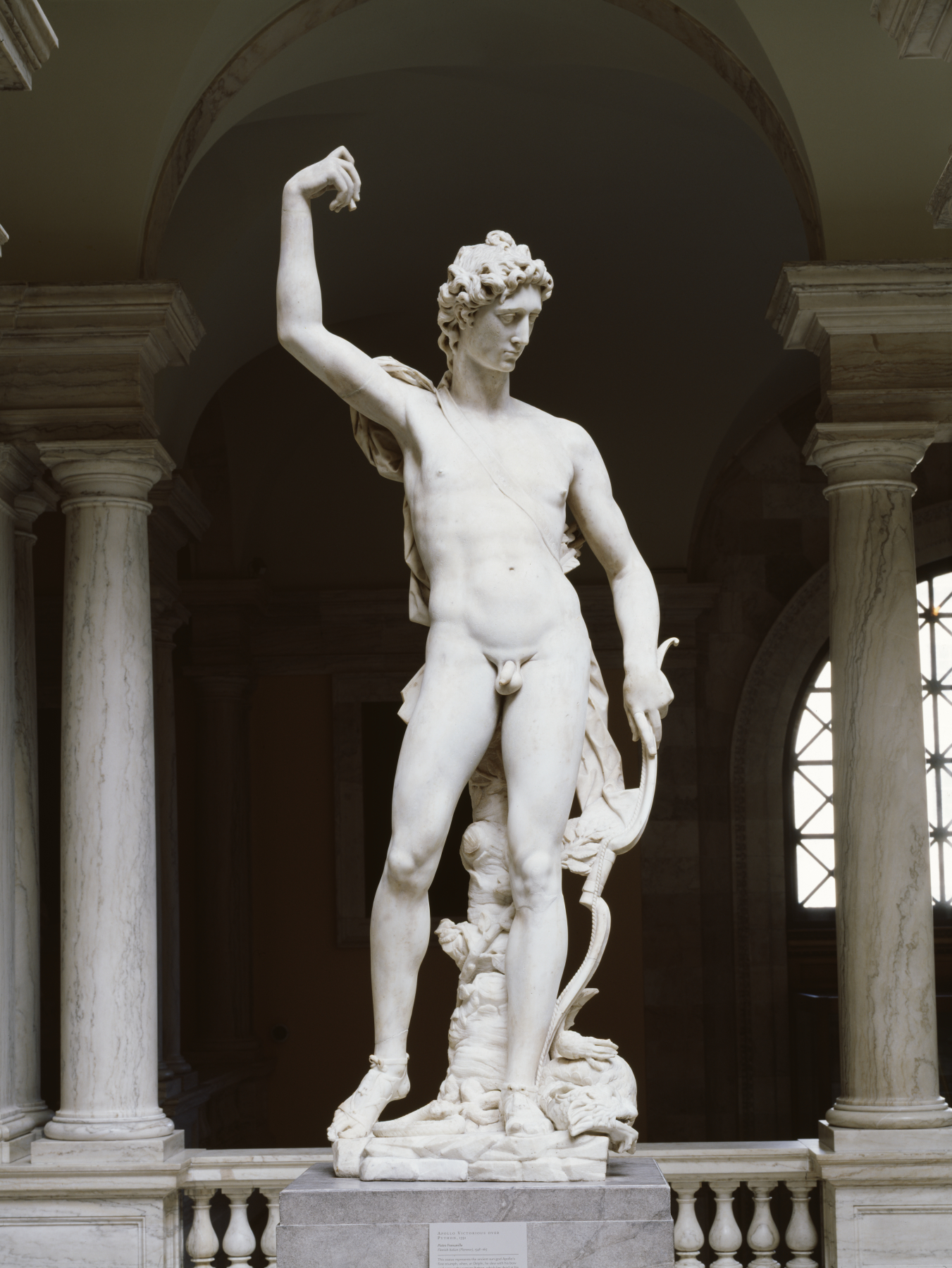 This statue represents the ancient sun-god Apollo's first triumph, when, at Delphi, he slew with his bow and arrows the serpent Python, which lies dead at his feet. Apollo embodied the ideals of male beauty and heroism. A work of this size was certainly intended for a prominent location, and this statue probably stood in the courtyard of the Palazzo Salviati in Florence. The sculptor's name and the date are inscribed across Apollo's chest. Born in Flanders, Francavilla moved to Florence, where be became a pupil and the principal assistant to the Medici court sculptor Giovanni da Bologna (1529-1608), also from Flanders. The elegant pose and elongated proportions of this monumental statue are characteristic of the artful, late-Renaissance style known today as Mannerism.